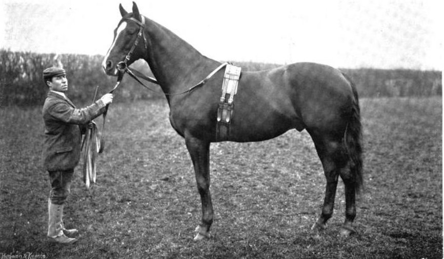 Sir Hugo, Thoroughbred racehorse and winner of the 1892 Epsom Derby.